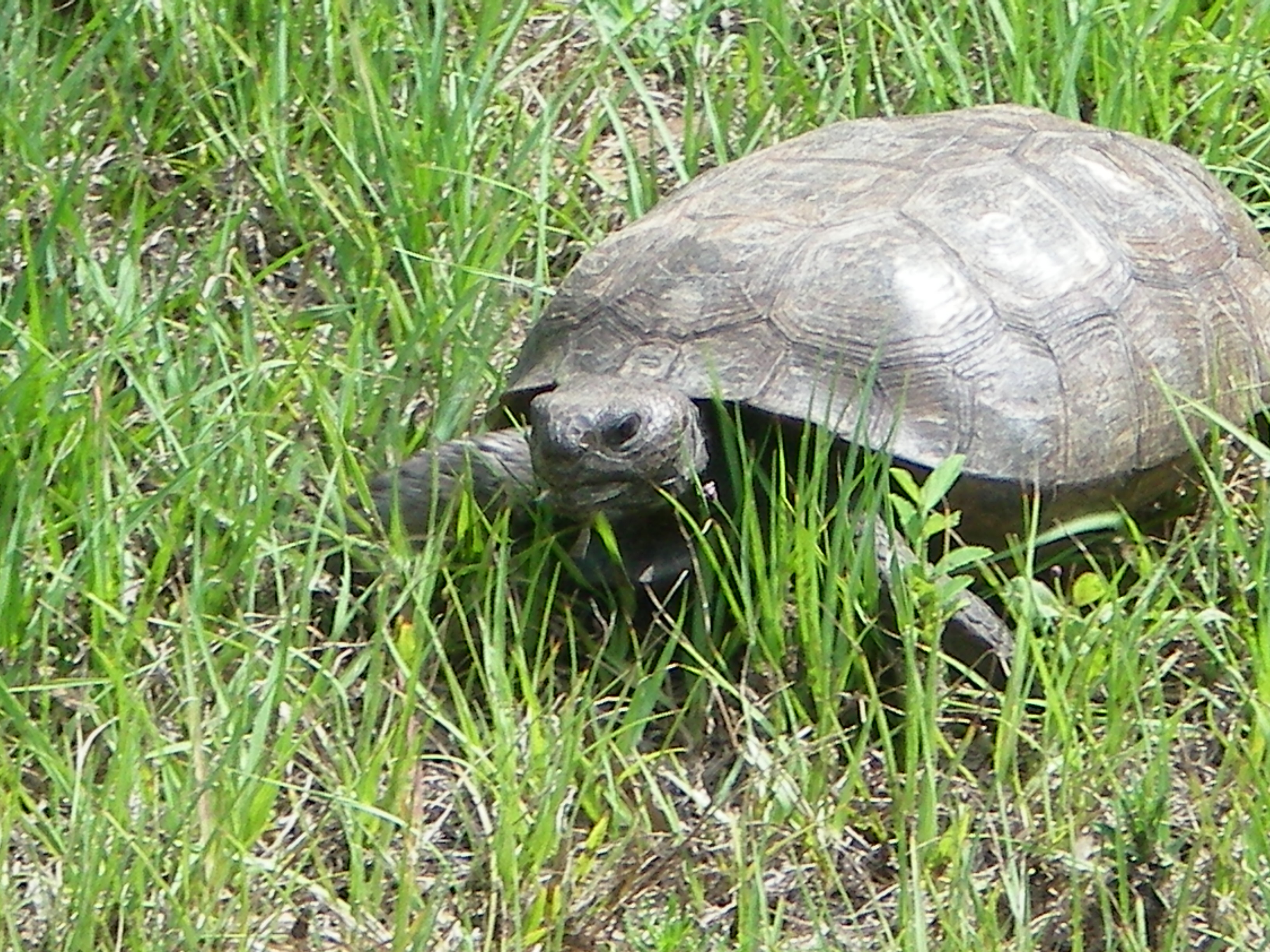 Gopher Tortoise in Cocoa, Florida